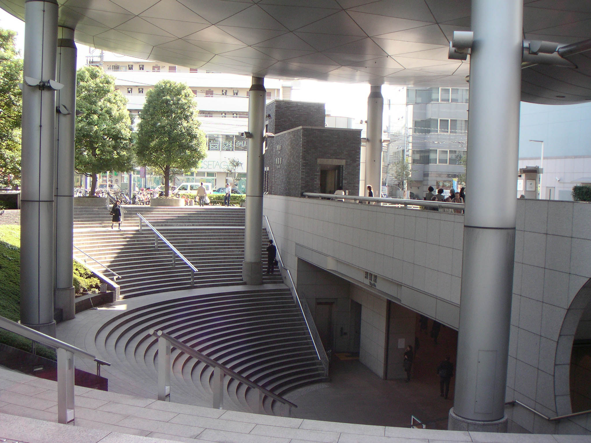 Yoga Station, Denentoshi Line, Tokyo, Japan